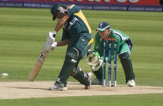 Niall O'Brien keeping wicket for Ireland against Pakistan